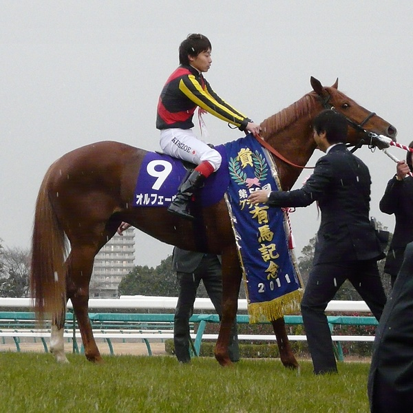 Orfevre at the 2011 Arima Kinen horserace